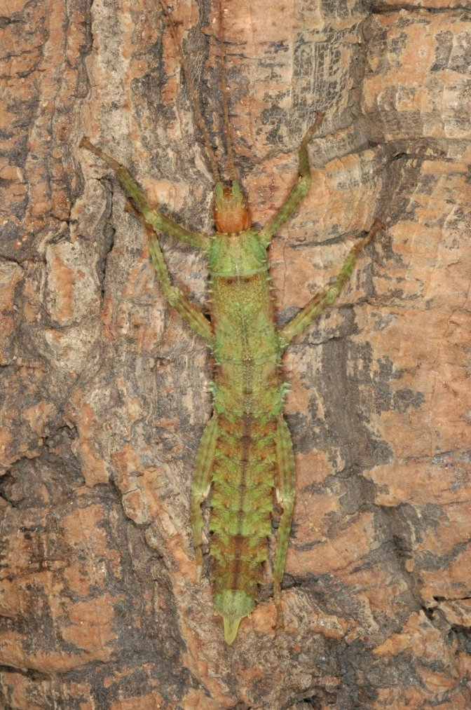 Eurycantha ssp.